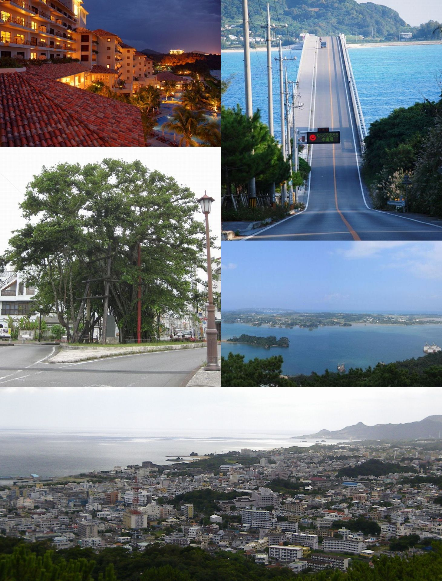 This image is montage of Nago, Okinawa prefecture, Japan upper left : The Busena Terrace upper right : Kouri Bridge middle left : The large tree of Ficus microcarpa called "Hinpun Gajumaru" middle right : Haneji Naikai (the sea around Okinawa island and Yagaji island) bottom : The cityscape of central Naha city